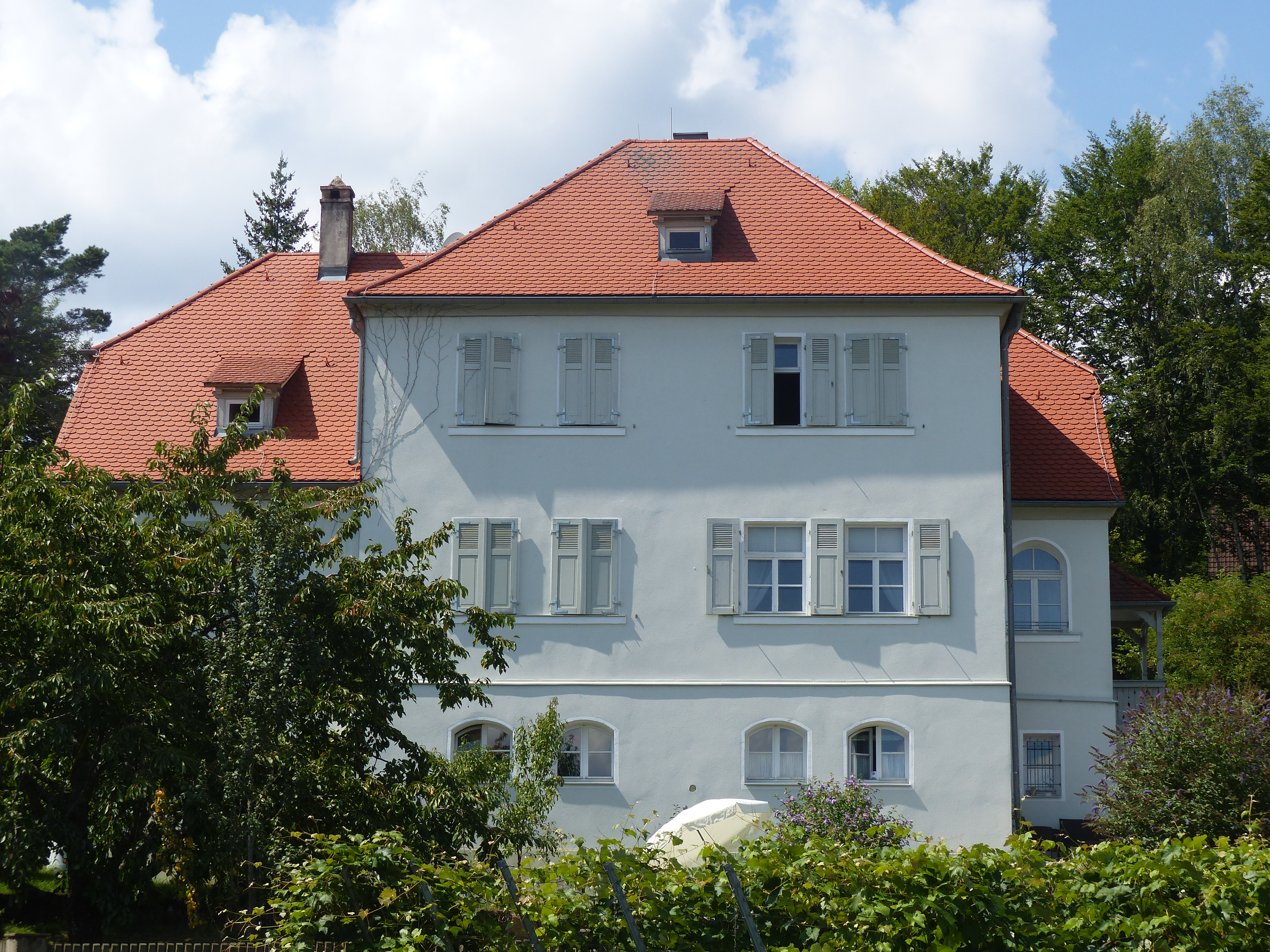 The vicarage of the village Moggast, a district of the town of Ebermannstadt.